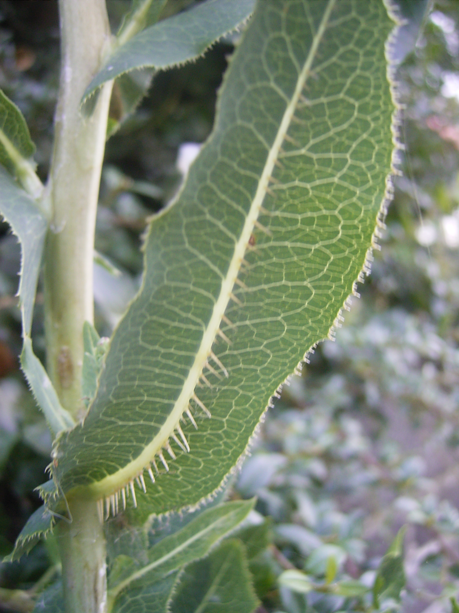 This photo shows the leaves of Lactuca serriola